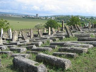 Jewish cemetery in romania